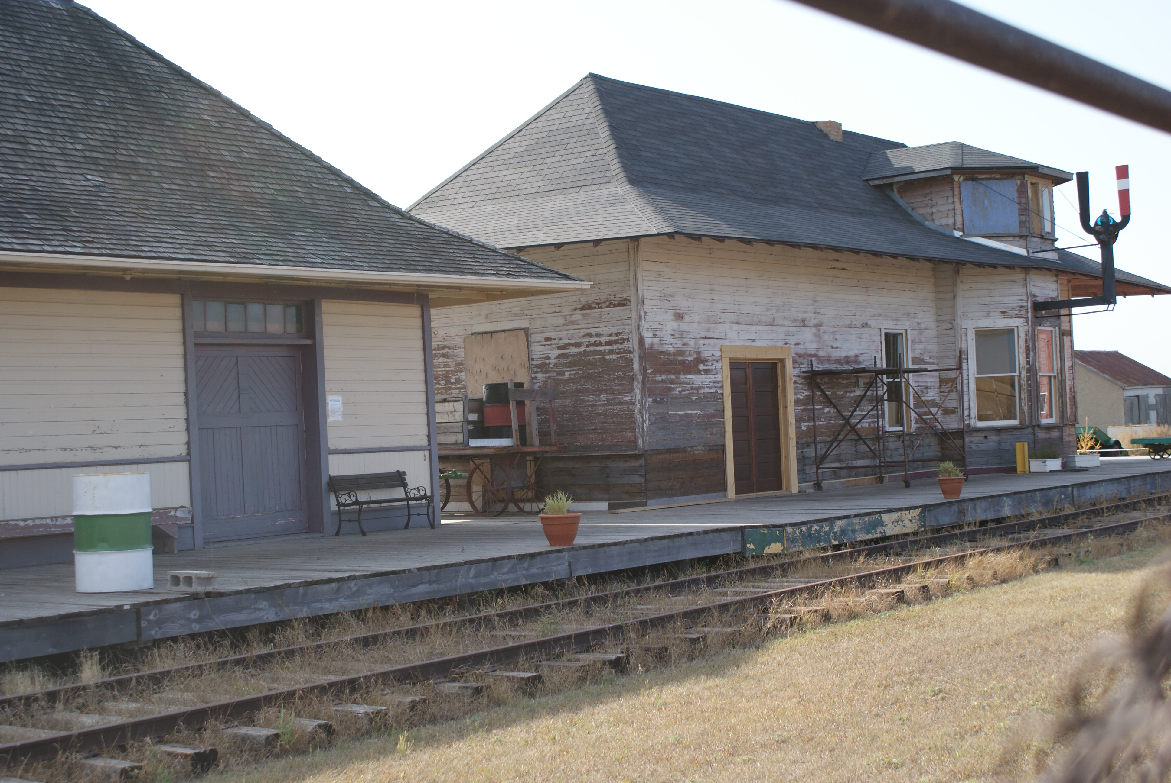 Argo Station Grand Turnk Pacific Railway type "E" station...now preserved at the Saskatchewan Railway Museum. The Railway semaphore signal were added at the museum. It is next to the Unity Express Shed (the closest building in the picture) SRM